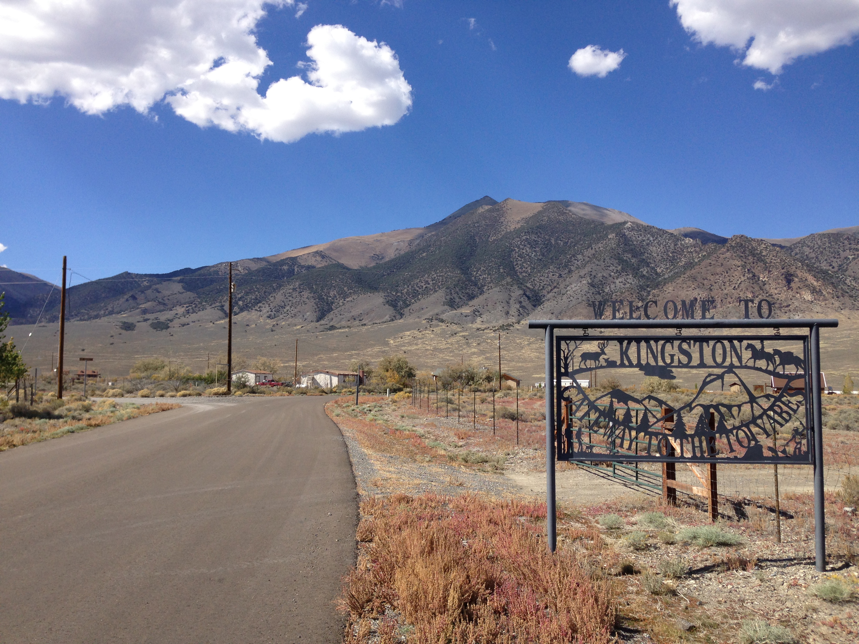 Sign along Tahoe Road at the entrance to Kingston, Nevada, with Bunker Hill visible in the background